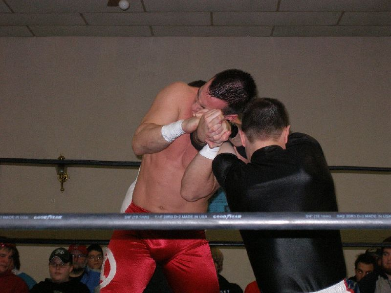 Professional wrestlers Max Boyer and Mike Quackenbush at the Chikara King of Trios 2007.